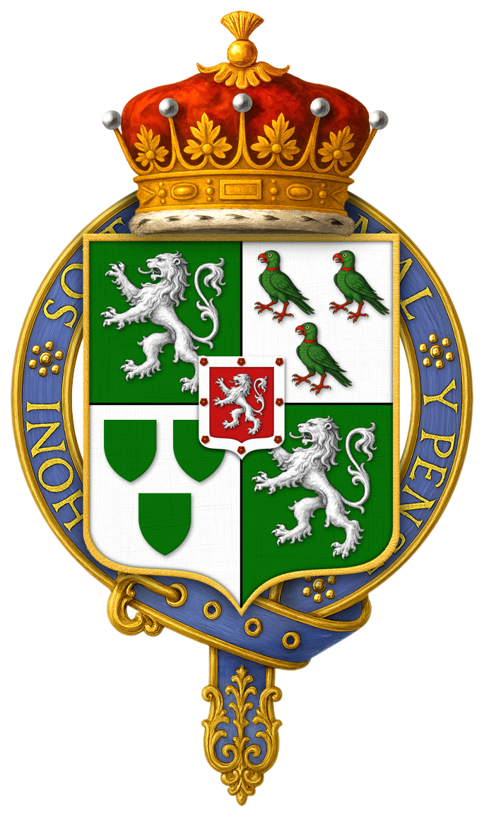 Coat of arms Sir George Home, 1st Earl of Dunbar, KG